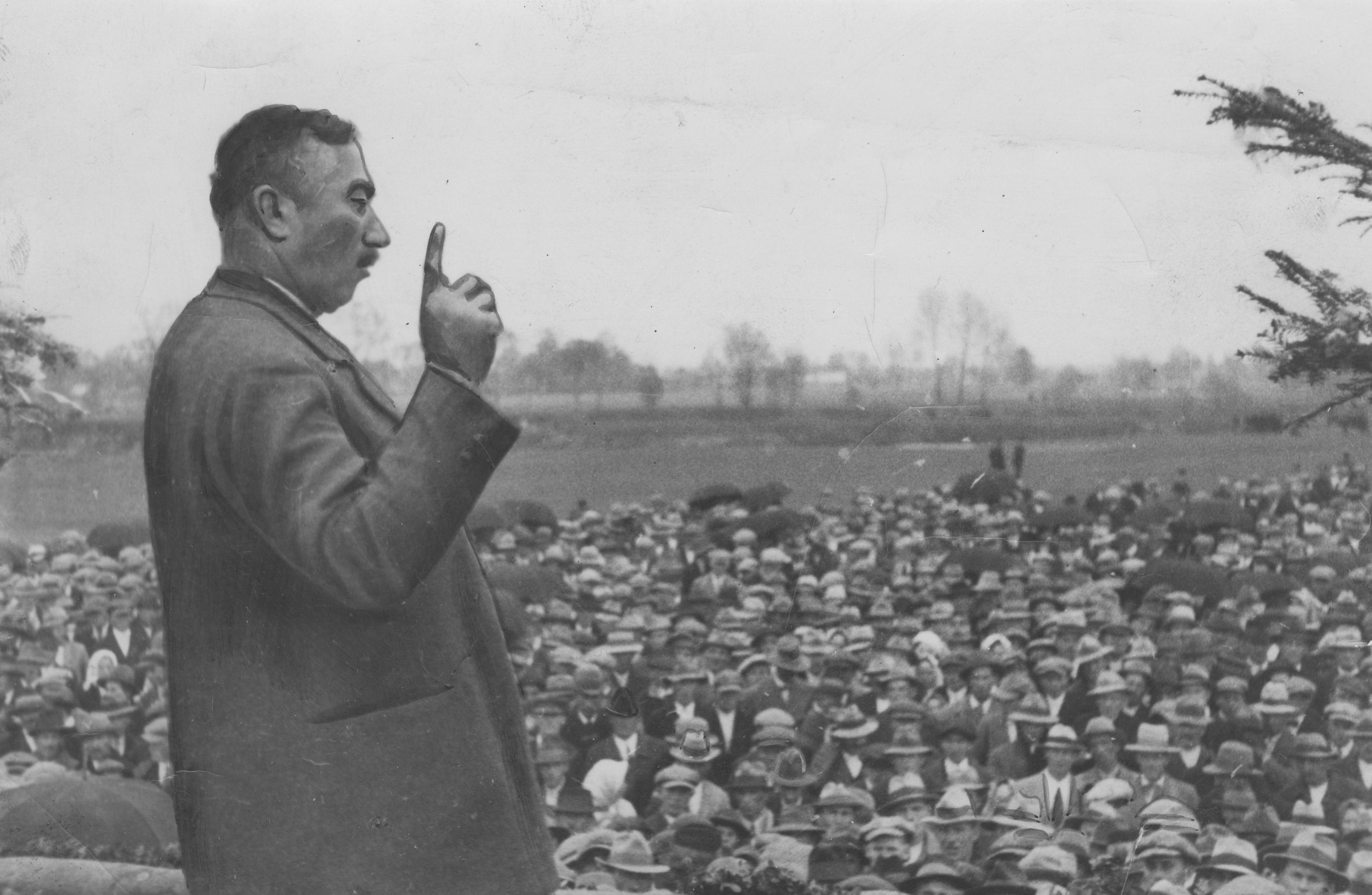 Wincenty Witos adressing crowd during in Rakszawa the 25th anniversary of his political acitivity